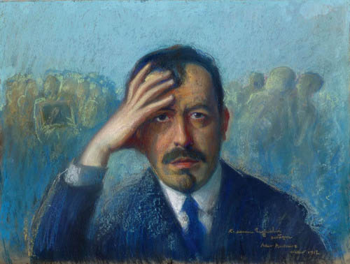 Artur Markowicz (1872 – 1934), Polish-Jewish painter in Krakow, student of Jan Matejko, selfportrait around the turn of the century